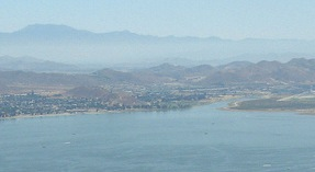 View of Lake Elsinore, San Jacinto River and surrounding area from Highway 74 (Ortega Highway). Original image cropped to show the San Jacinto River and a bit of the lake.